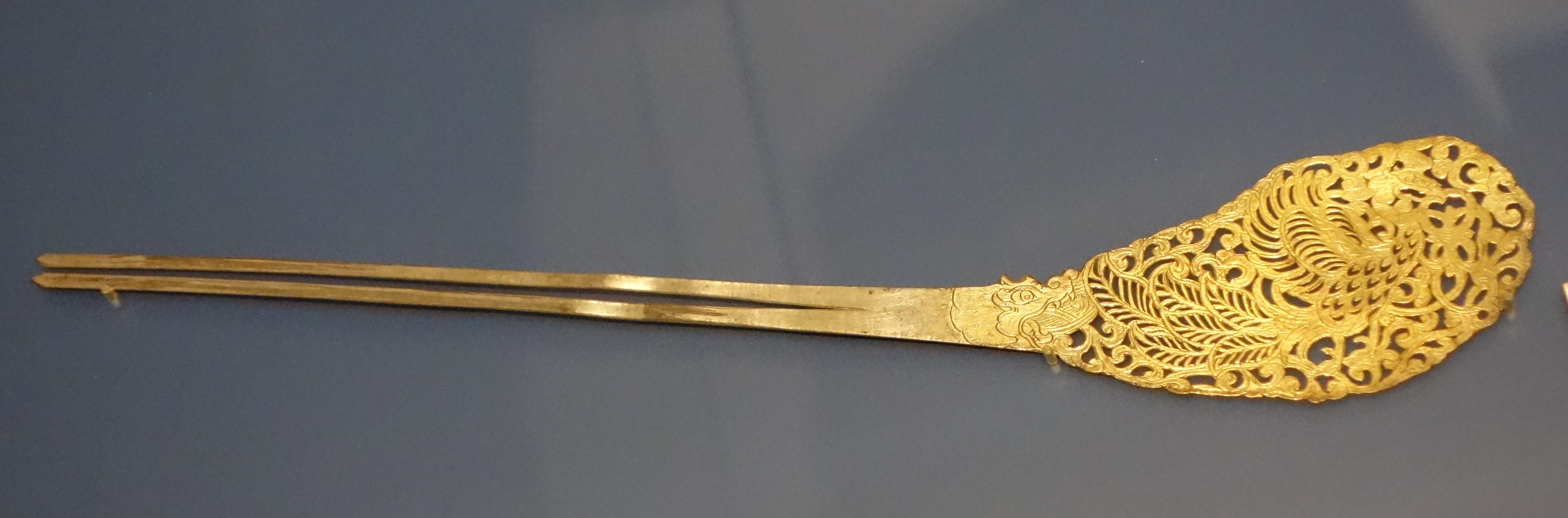 Exhibit in the Royal Ontario Museum, Toronto, Ontario, Canada. This work is old enough so that it is in the public domain.